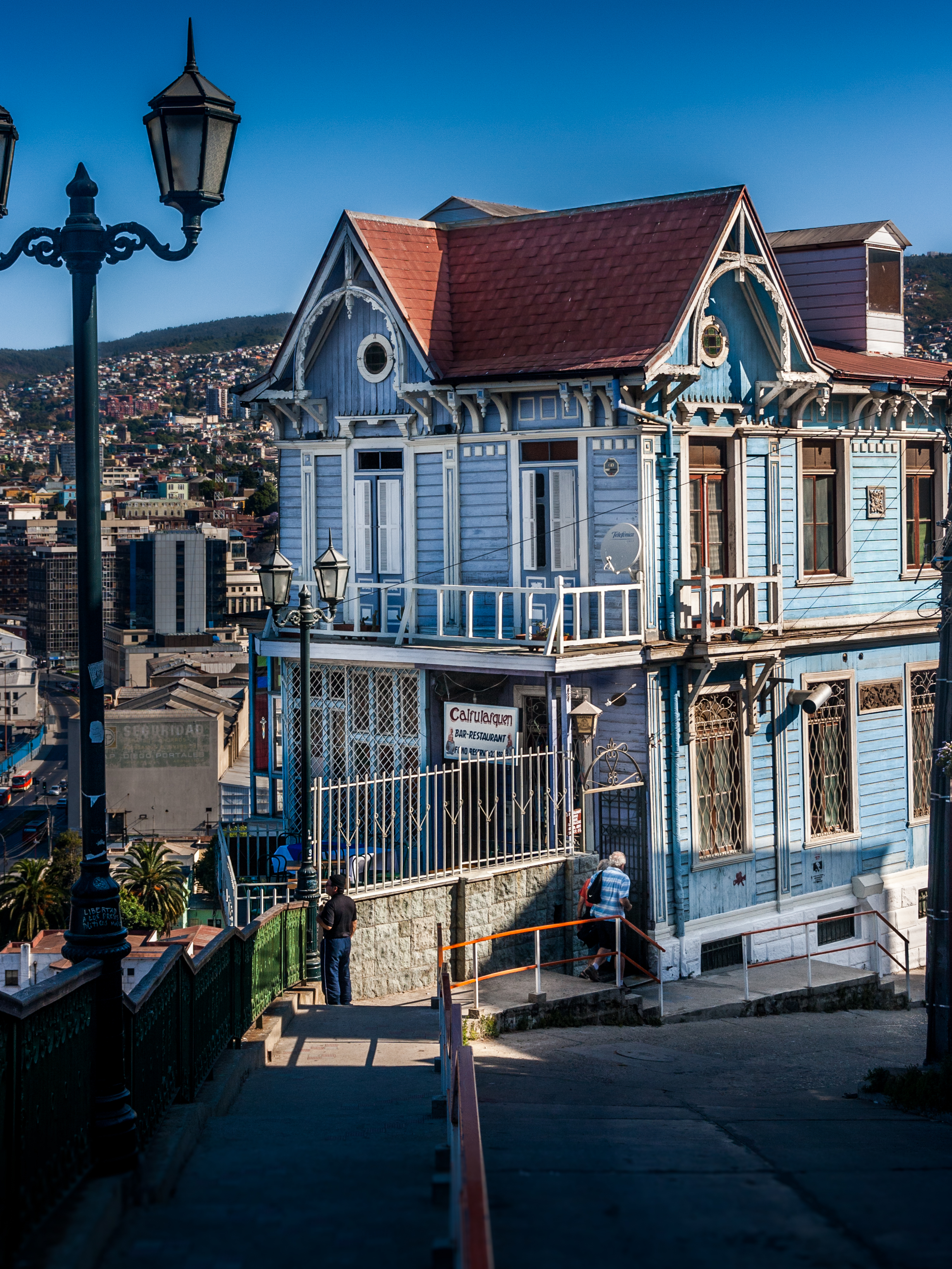 Valparaíso, Chile.